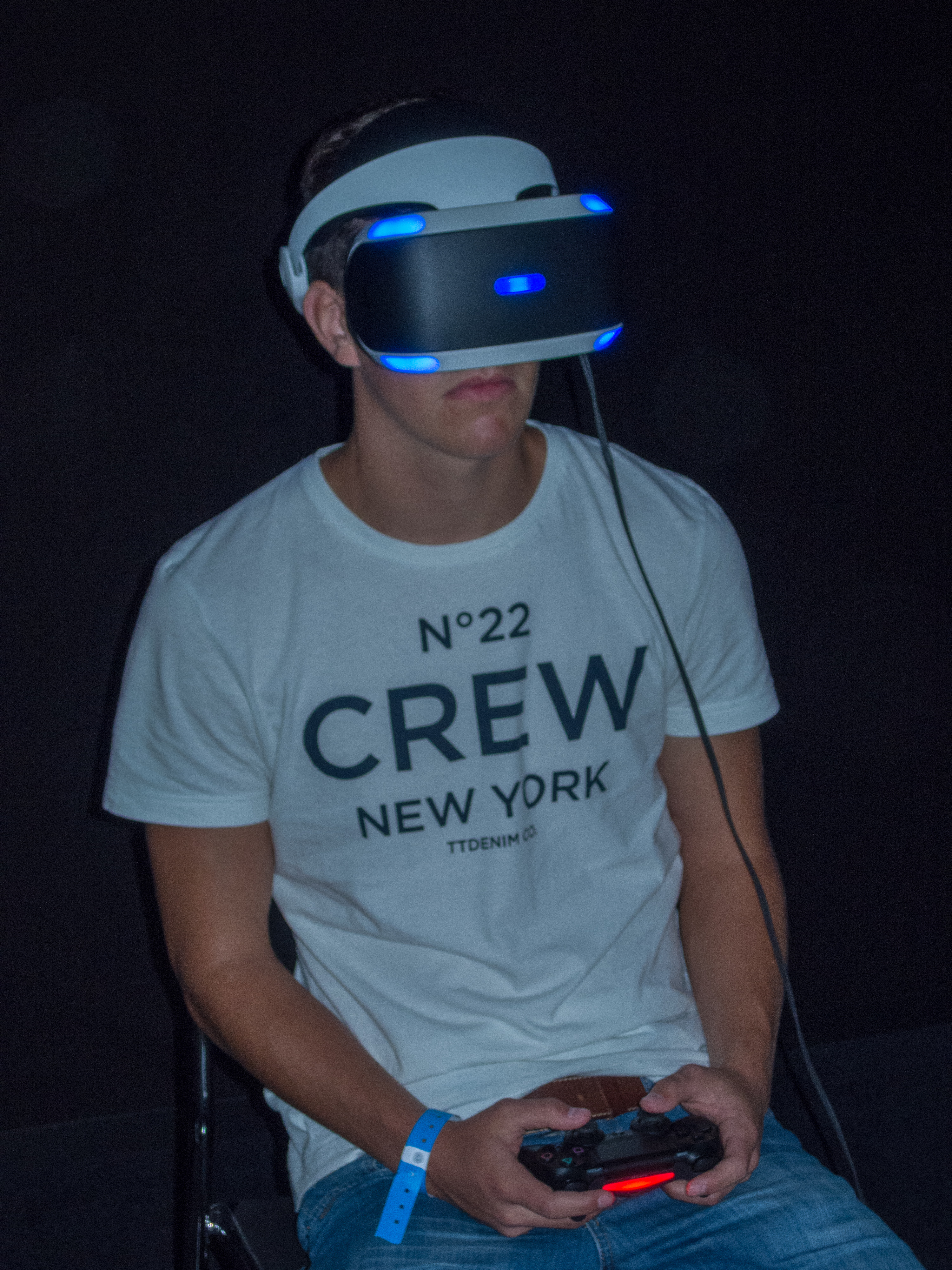 Gamescom 2015 Cologne Sony Morpheus Virtual Reality